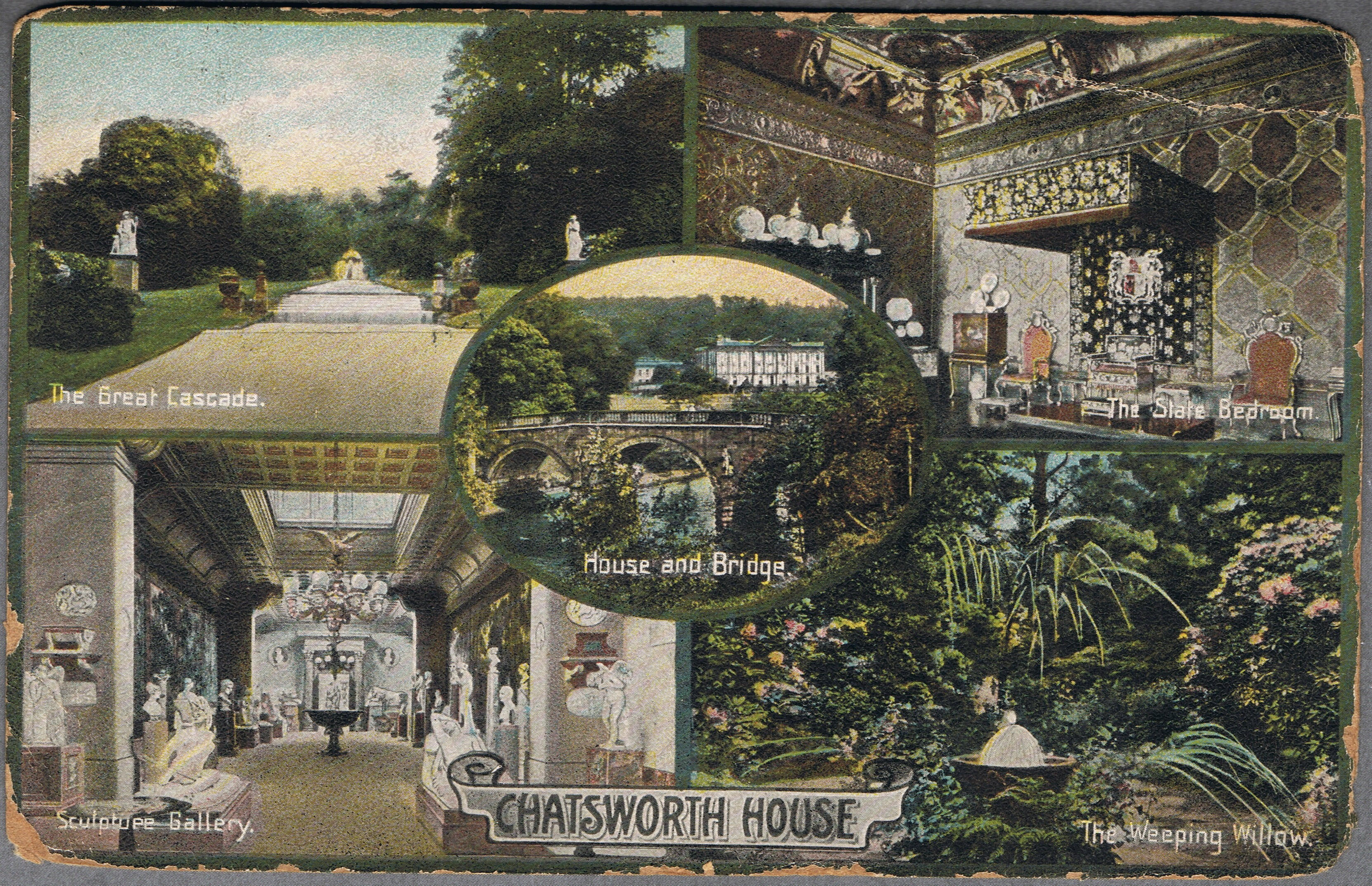 Scan of a colour postcard of Chatsworth House, Derbyshire, (scan and postcardRodolph (talk) 00:01, 12 August 2014 (UTC)), sent from Liverpool to Navsari, India in 1913. JAY EM JAY GY. SERIES-Jackson & Son, Publishers, Grimsby. Printed at our Works in Germany. From R. Convery [?] of 58, Northumberland Terrace, Liverpool, to Ratan N Timbdly of (Komereinto), Navsari, India. Franked: 1 August 1913.